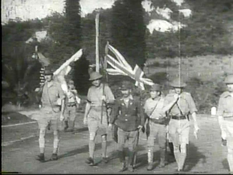 Battle of Singapore, Arthur Percival.